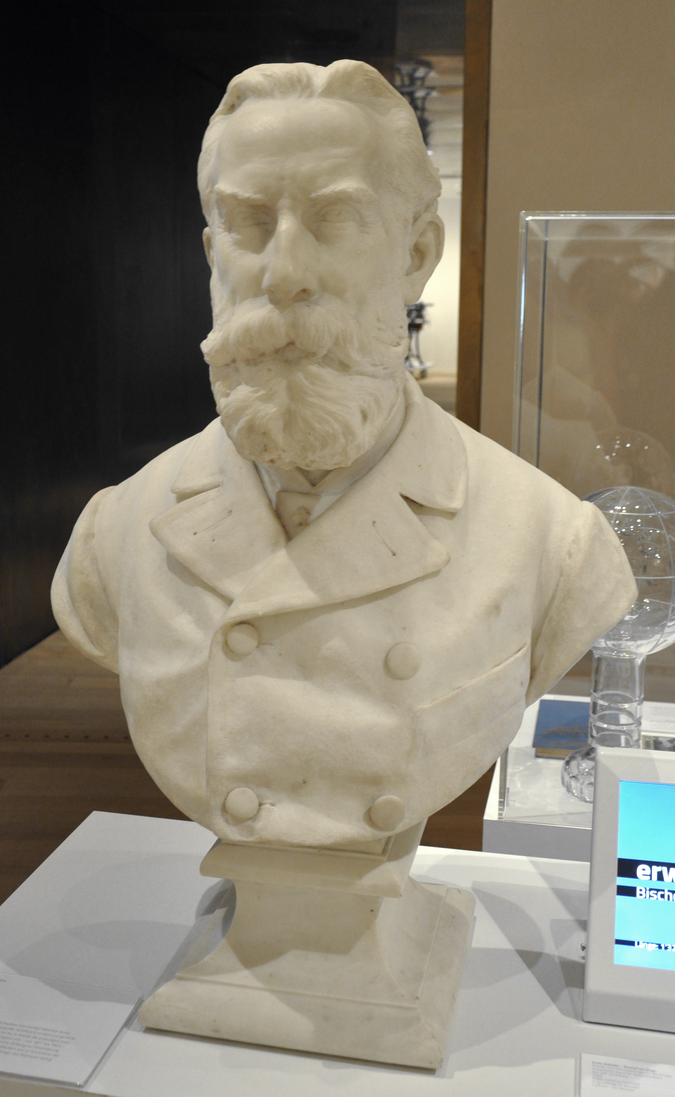 Büste Samuel Jenny, von Georg Feurstein, 1902, weißer Marmor Vorarlberg museum Native namevorarlberg museumLocationBregenz, Vorarlberg, AustriaCoordinates47° 30′ 15.84″ N, 9° 44′ 48.01″ E Established1857Web pageVorarlberg Museum websiteAuthority control : Q2533480 VIAF: 124303291 ISNI: 0000 0001 2242 622X LCCN: n50051186 GND: 18871-2 SUDOC: 030717523 WorldCat institution QS:P195,Q2533480